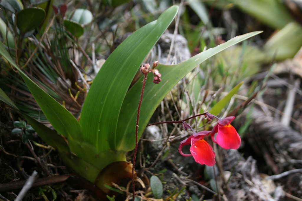 Utricularia quelchii and Stegolepis guianensis of mount Roraima, Venezuela